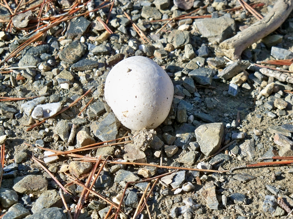 Bovista dermoxantha fungi.